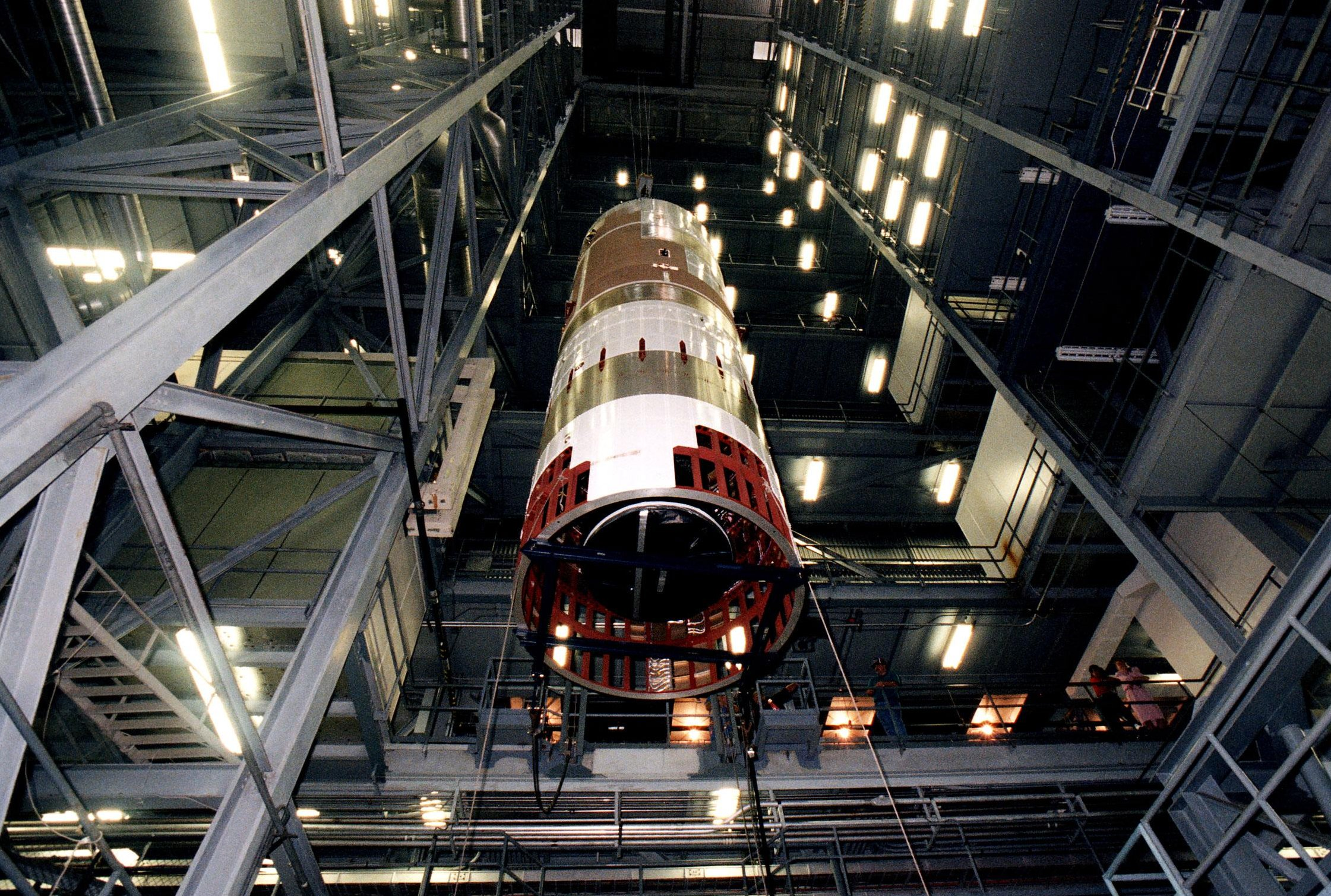 The second stage of a Titan IV/Centaur expendable launch vehicle is suspended in the Vertical Integration Building before being moved into position for mating to the first stage. The Titan IVB rocket is the newest version of America's most powerful unmanned rocket. This rocket will be used for the Cassini mission to Saturn. The Cassini launch is targeted for October 6 from Launch Complex 40, Cape Canaveral Air Station